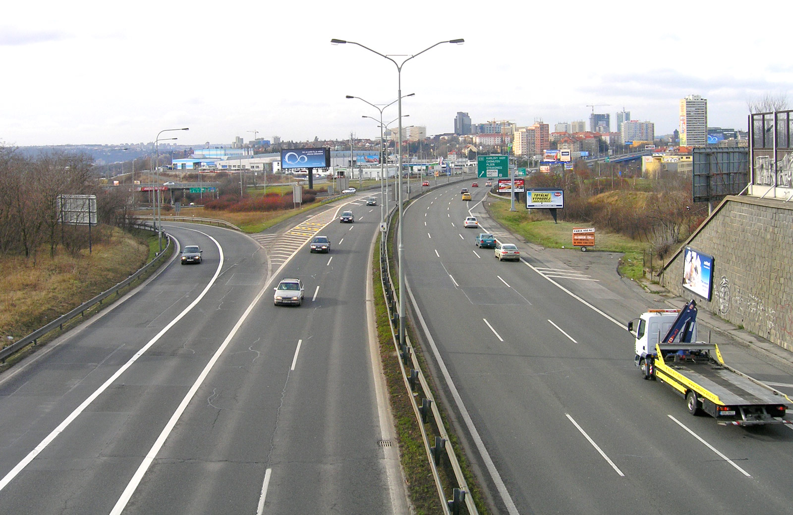 Notrh-south arterial road, intersection with South junction, Prague